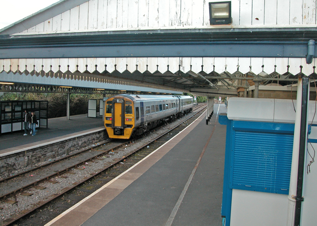 Tenby Station